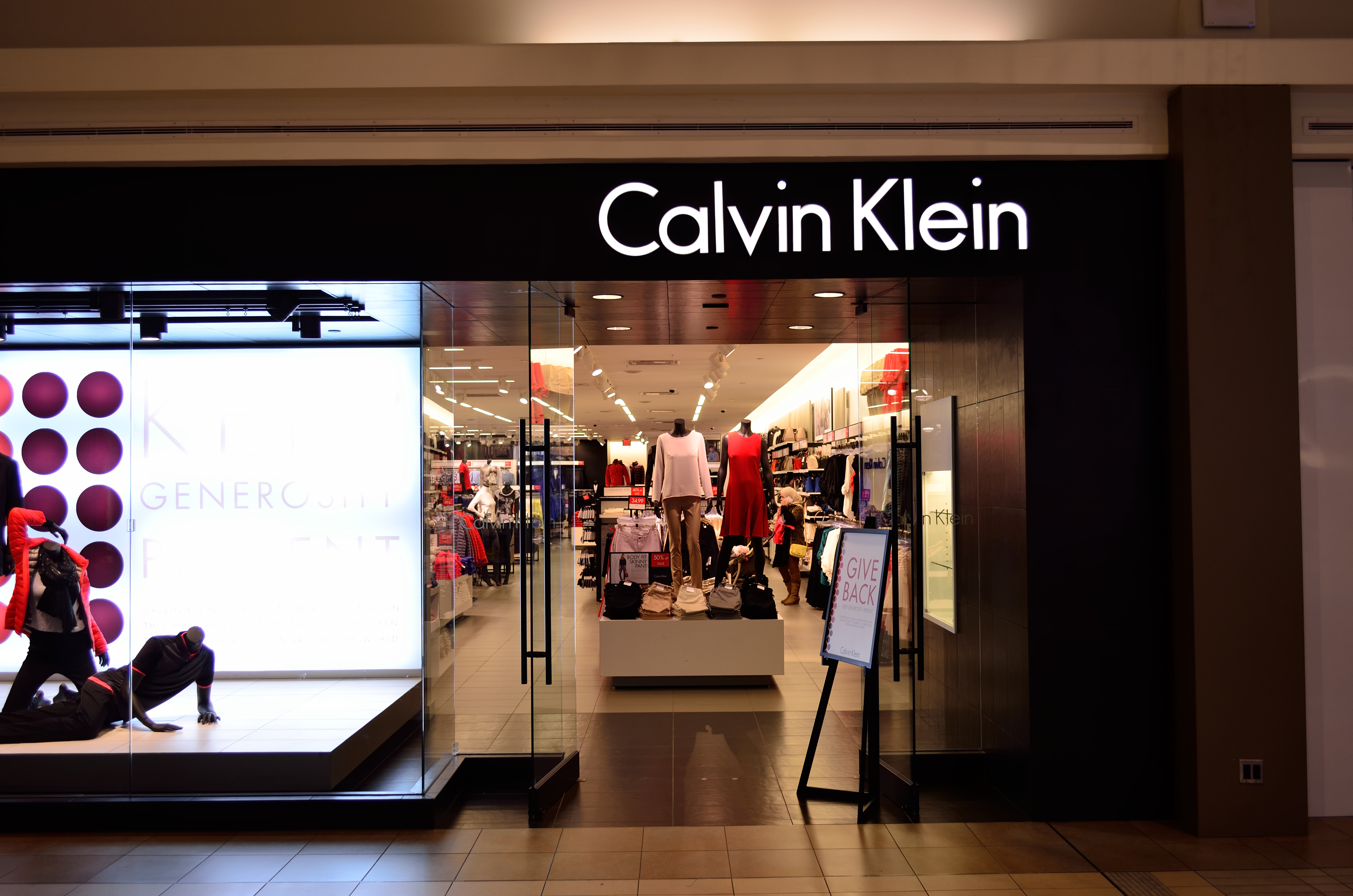 Calvin Klein at Fairview Mall